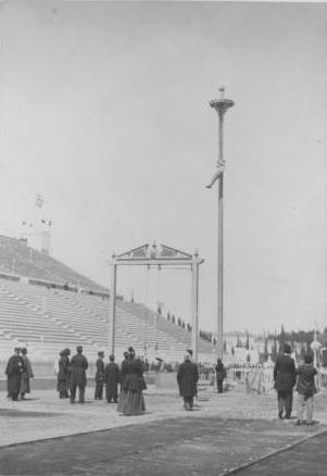 Rope climbing event during 1896 Summer Olympics